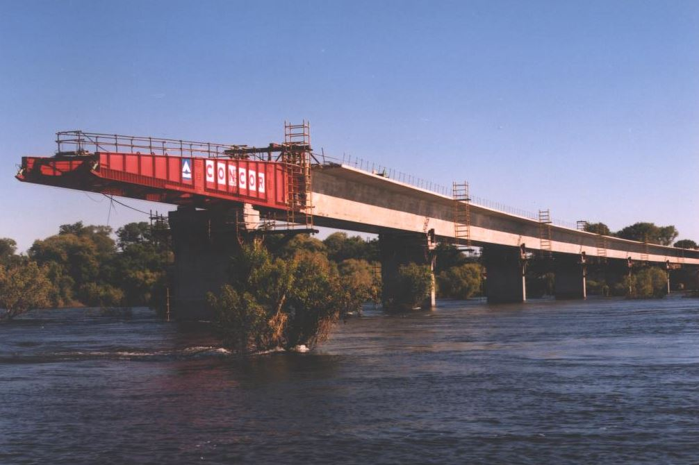 Concor Infrastructure Incremental Bridge launch 2003